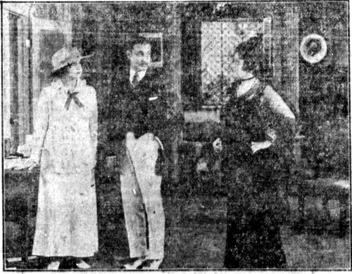 The Dictator is a 1915 silent film comedy directed by Oscar Eagle and reputedly Edwin S. Porter. This is a scene from newspaper publicity.